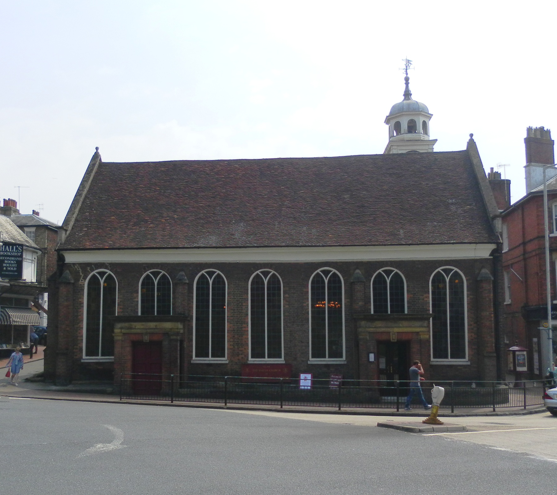 King Charles the Martyr's Church, Mount Sion, Royal Tunbridge Wells, Borough of Tunbridge Wells, Kent, England. The original Anglican church in Royal Tunbridge Wells.